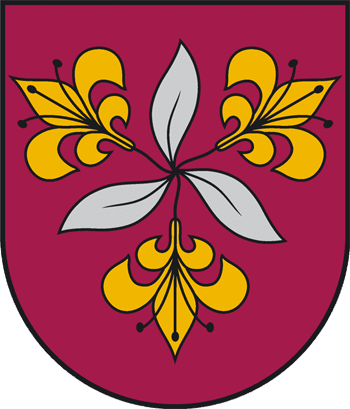 Coat of arms of Vecumnieki Municipality, Latvia